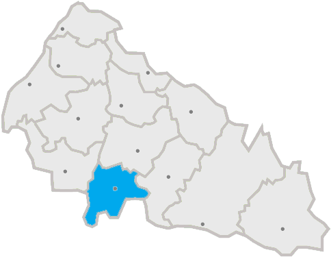 Ukraine, Oblast Transcarpathia, Rajon Vynohradiv highlighted